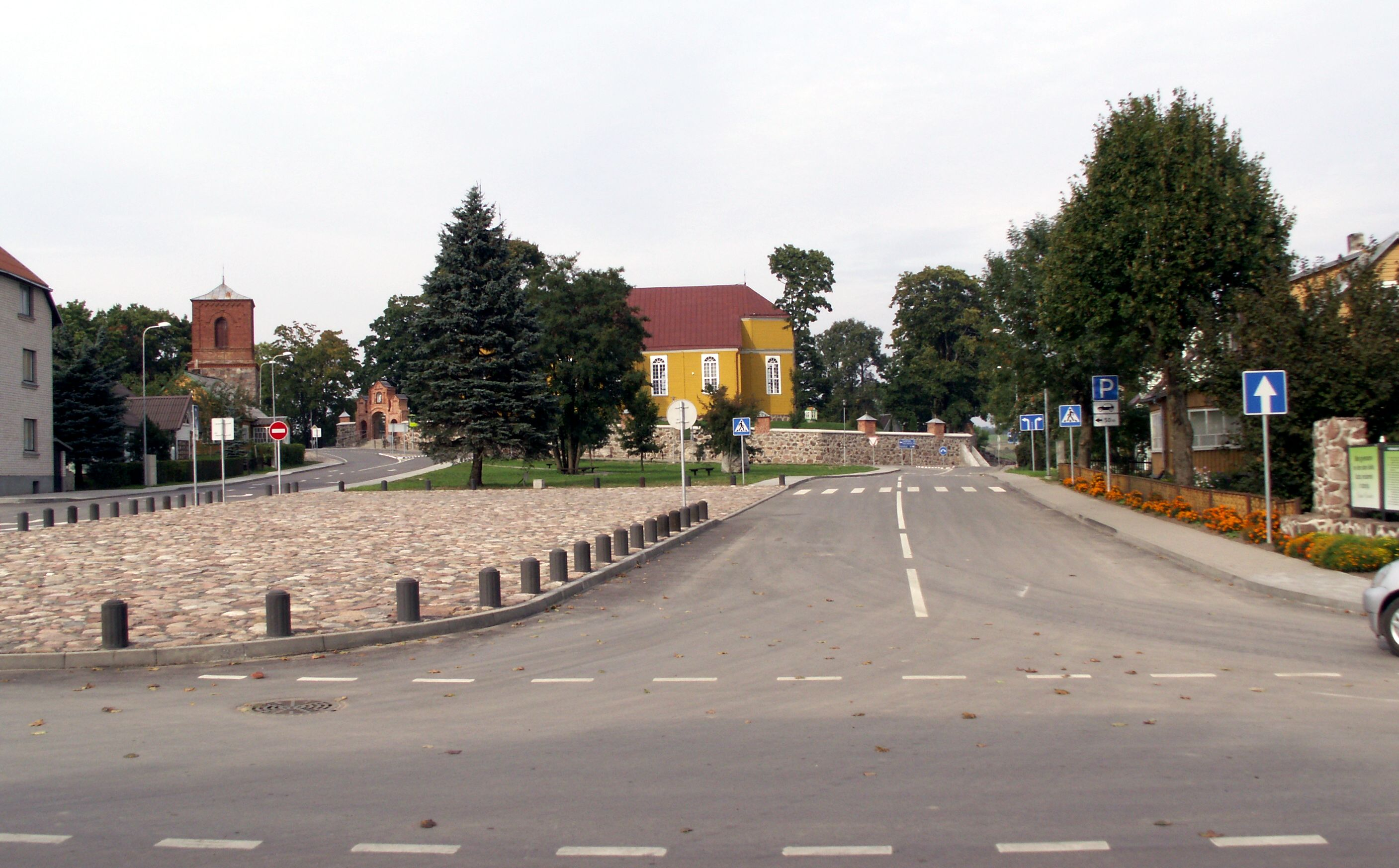 Tverai, Lithuania